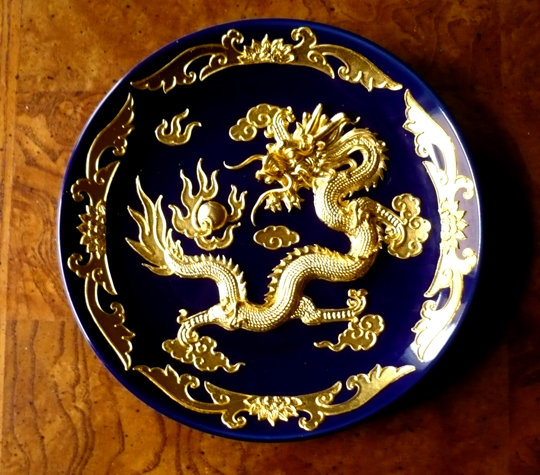 Xiamen gold plated lacquer thread plate